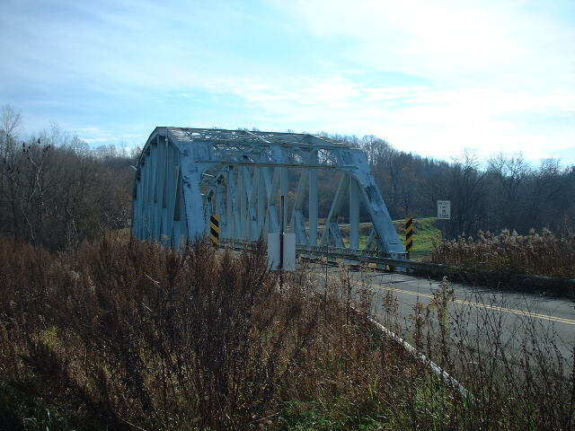 The Bigelow Bridge and New York State Route 240 in 2003, before the new bridge was built to bypass this span.